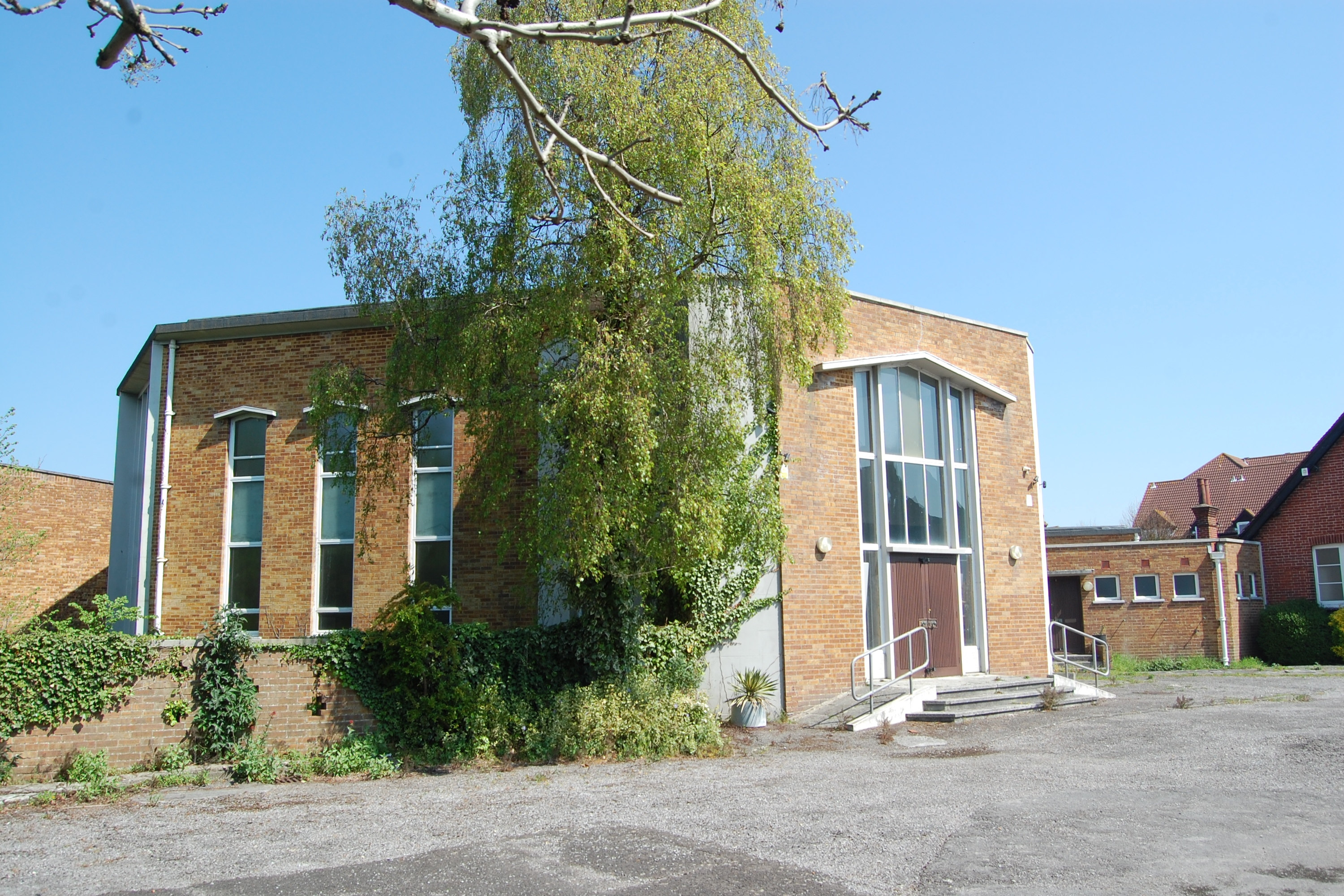 Former Bury Road United Reformed Church, Bury Road, Gosport, Borough of Gosport, Hampshire. This was built in 1957 to the design of L.F. Kimber (as Bury Road Congregational Church) to replace the bombed Congregational chapel in the town centre. It closed in 2017 and the church joined with St Columba's URC at Elson.